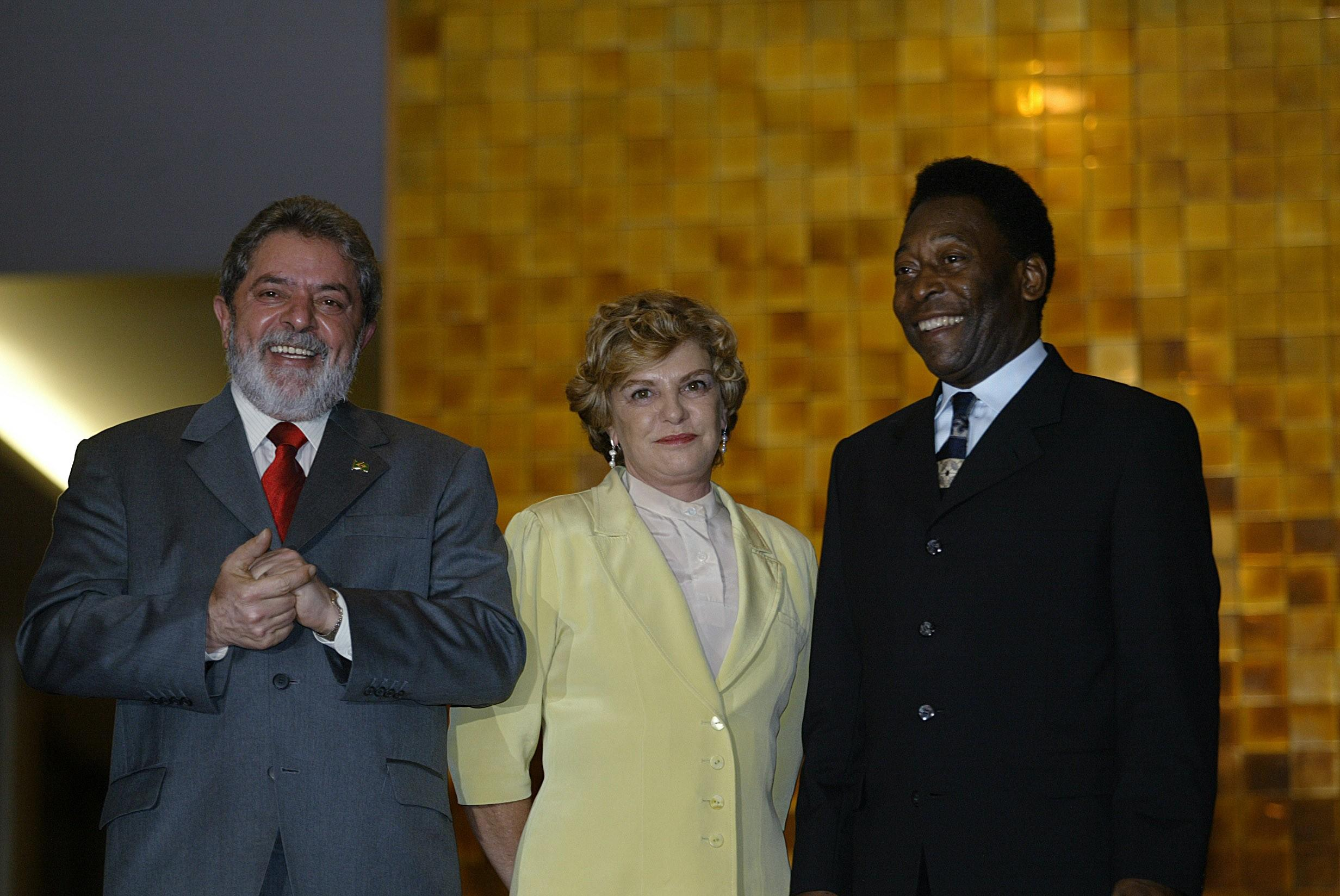 Pelé (right) with Lula (left) and Dona Marisa (center)